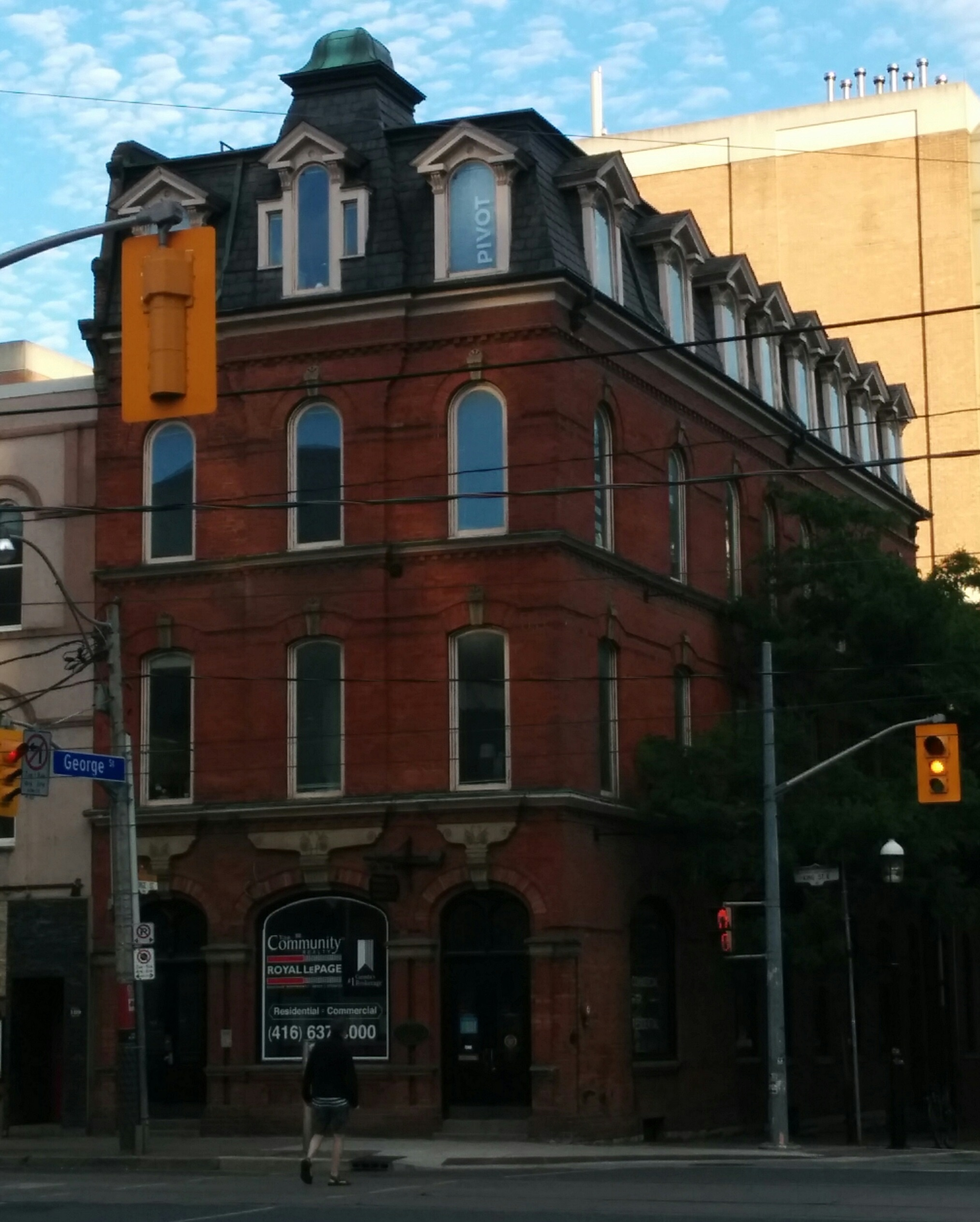 View of 1880 Little York Inn at King and George Streets